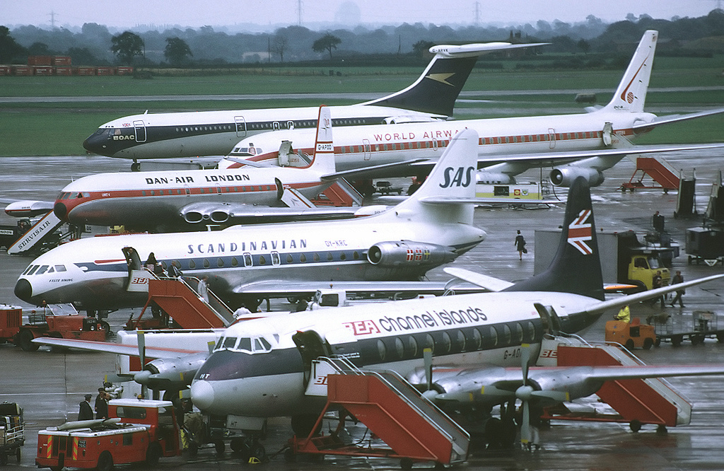 From back to front: BEA Vickers 802 Viscount (G-AOHT), SAS Scandinavian Airlines Sud SE-210 Caravelle III (OY-KRC), Dan-Air London De Havilland Comet 4 (G-APDD), World Airways DC-8 (?) and BOAC Vickers VC10. Manchester Airport